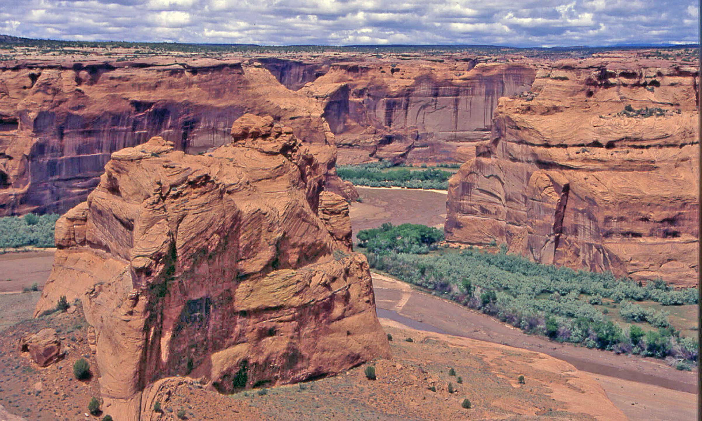 Canyon de Chelly National Monument (USA Arizona - Navajoland): A steep canyon in the Colorado Plateau. The gorge contains over one hundred inaccessible cliffs (cliff dwellings).